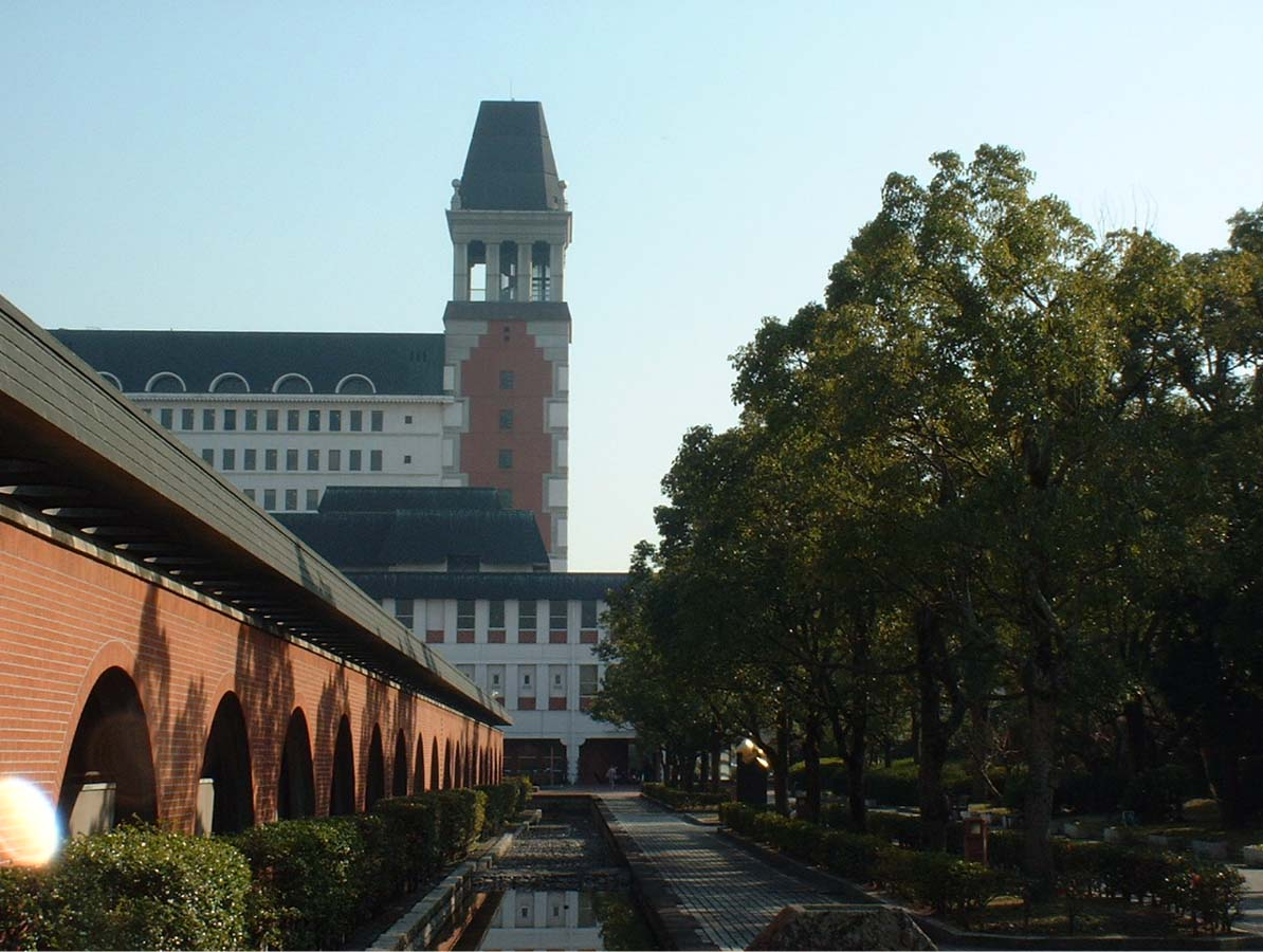 Kurashiki City Hall seen from the north